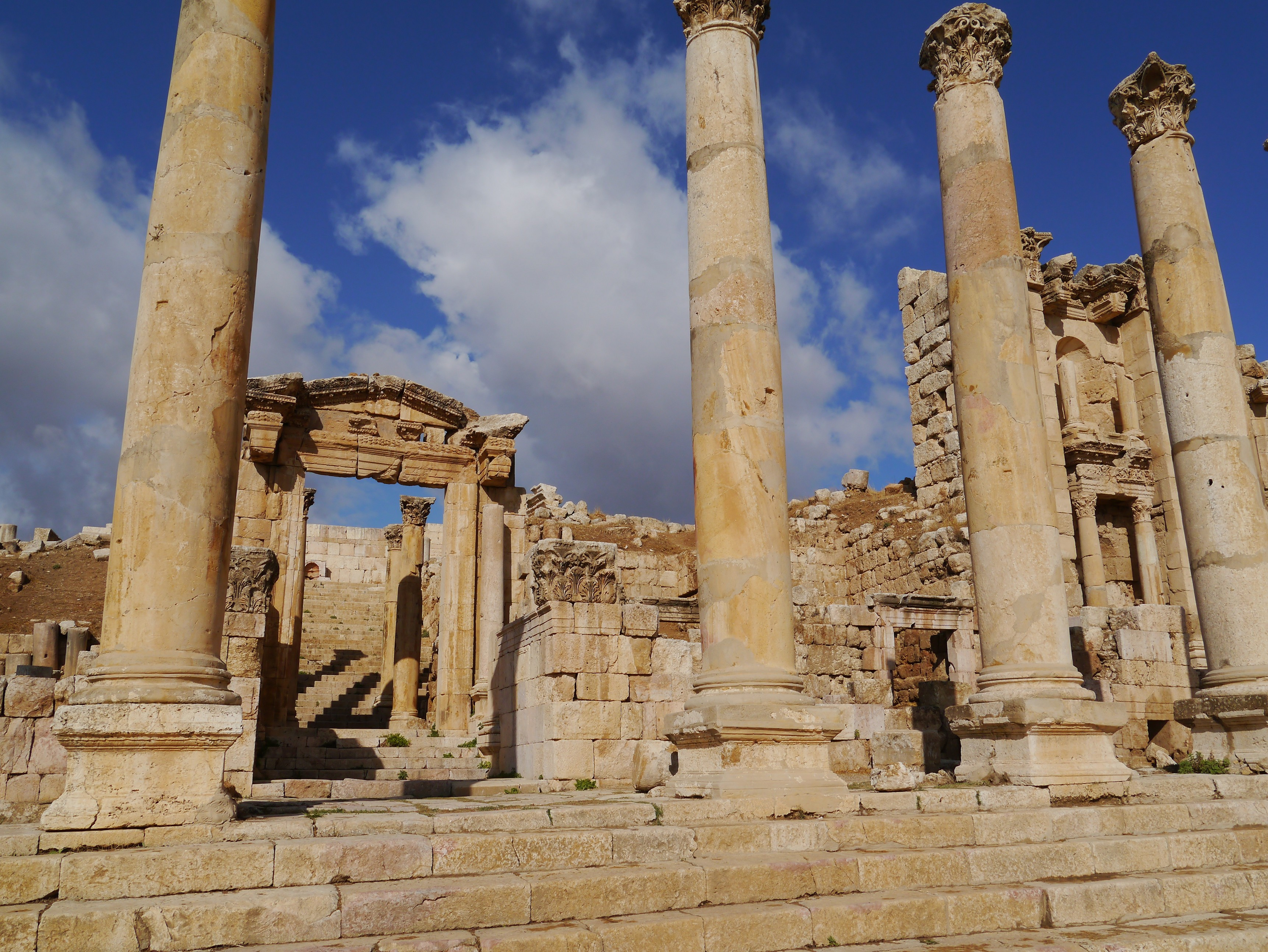 "Cathedral", Gerasa/Jerash, North western Jordan